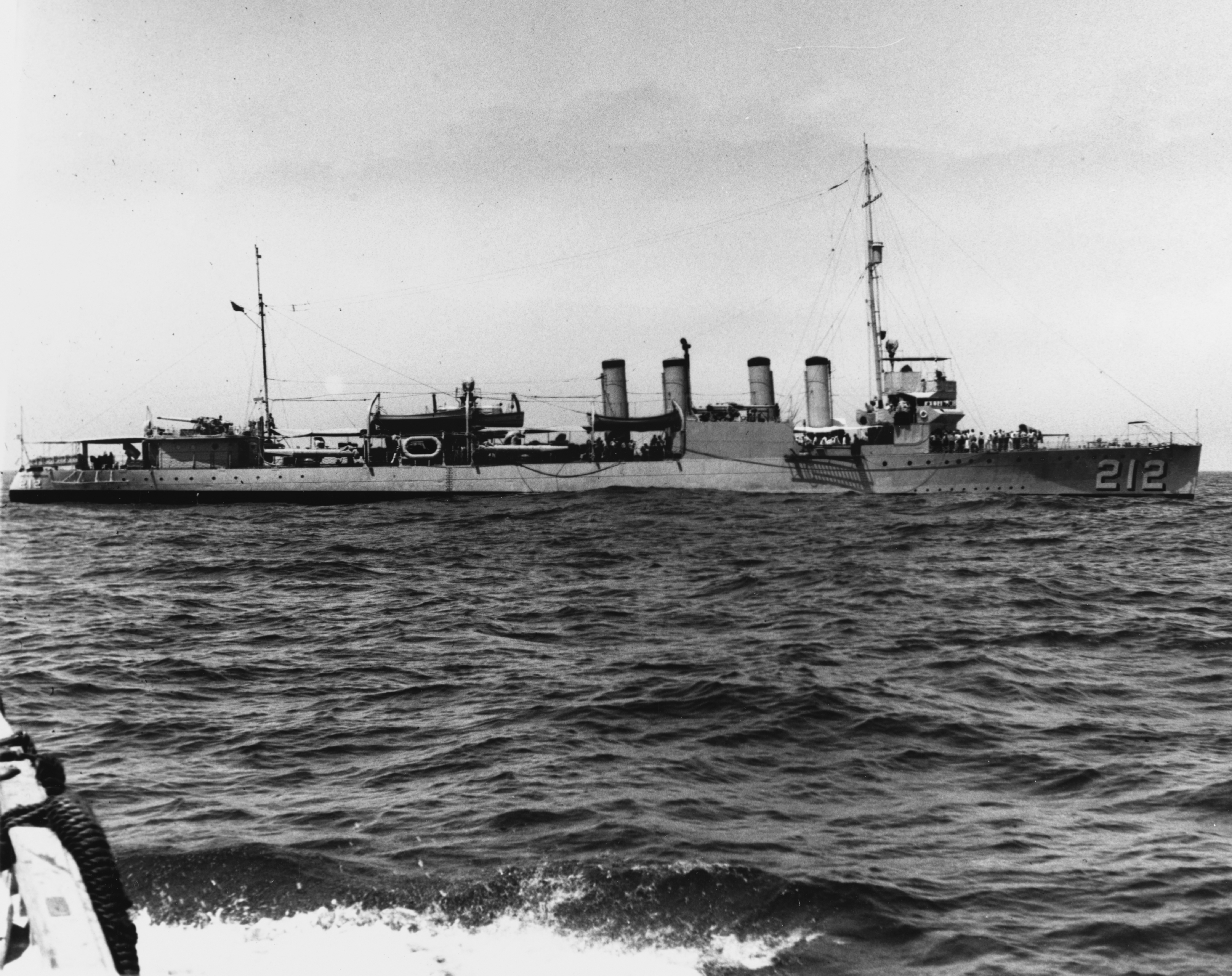 The U.S. Navy destroyer USS Smith Thompson (DD-212) off Tsingtao, China, in the Summer of 1935.